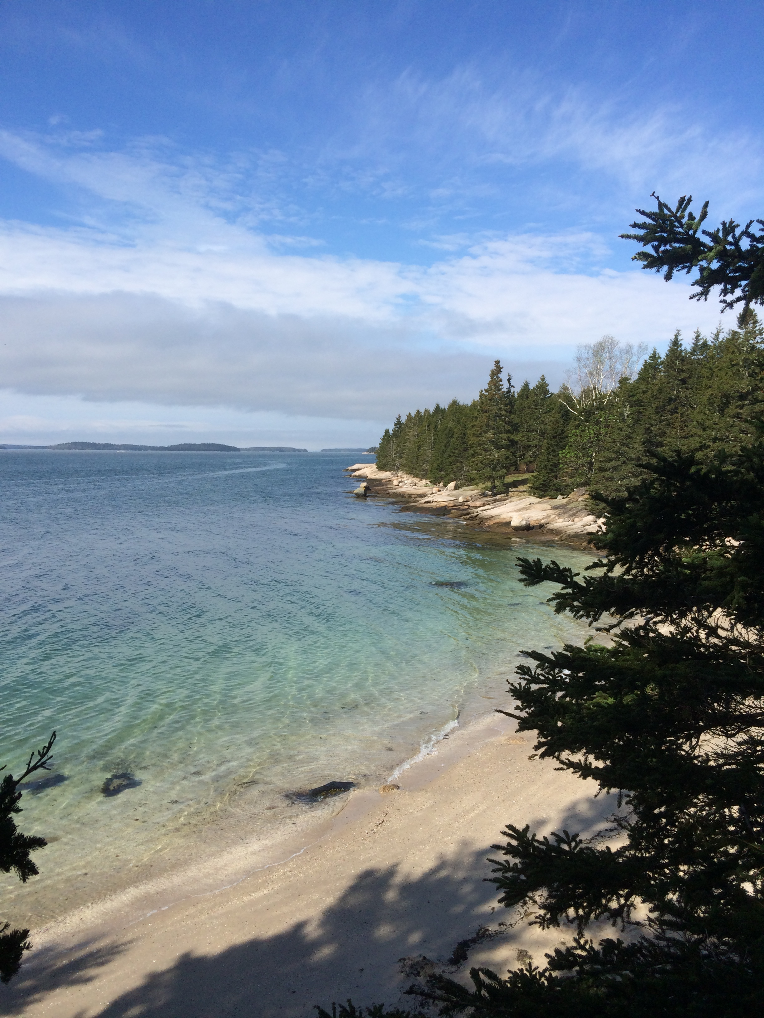 This is a picture from the shore of Deer Isle, Maine, USA overlooking a beach.